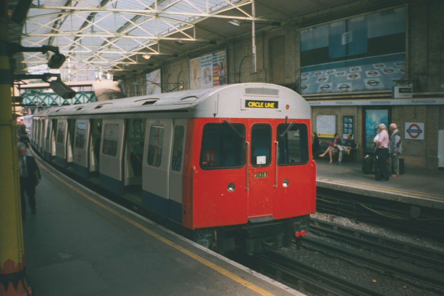 Farringdon (LUL) station in 2000.